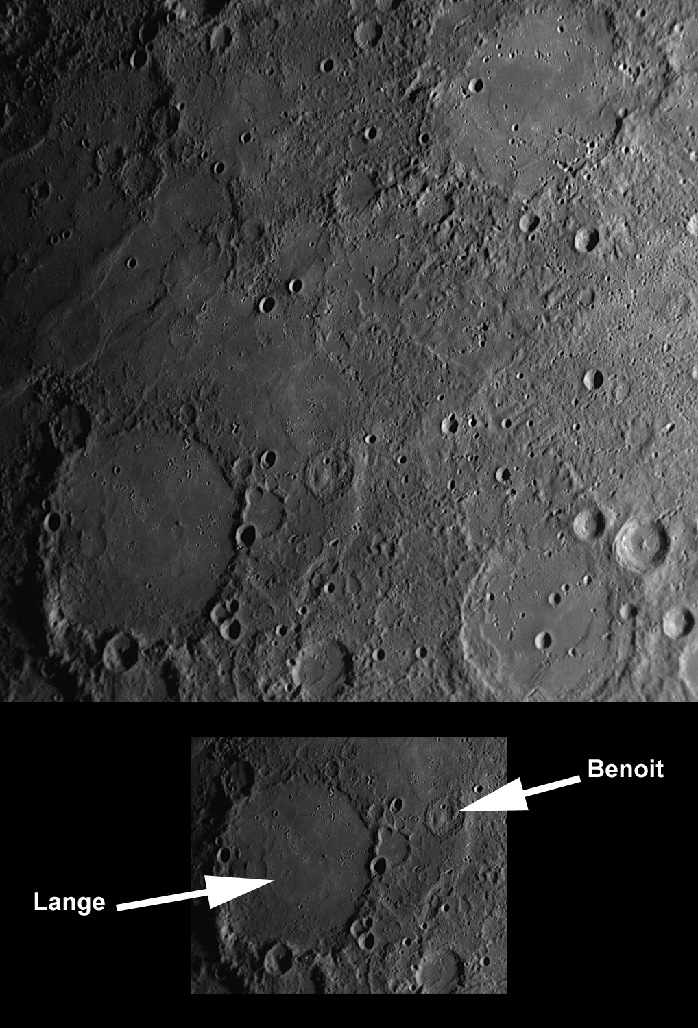 Image Mission Elapsed Time (MET): 108828463 Instrument: Narrow Angle Camera (NAC) of the Mercury Dual Imaging System (MDIS) Resolution: 500 meters/pixel (0.31 miles) Scale: Lange is 180 kilometers (112 miles) in diameter Spacecraft Altitude: 19,700 kilometers (12,200 miles) Of Interest: Impact craters and basins on Mercury are named for deceased artists, musicians, painters, and authors who have made outstanding contributions to their fields. MESSENGER's three Mercury flybys have led to a new global view of Mercury and, currently, to 42 newly named craters on the Solar System's innermost planet. This NAC image, acquired during MESSENGER’s first Mercury flyby, shows the crater Benoit and the basin Lange. Benoit is named for Rigaud Benoit, a twentieth century Haitian painter (1911-1987), and Lange is named for American photographer Dorothea Lange (1895-1965). These particular craters were proposed for names on the basis of some interesting features of each. Benoit is a small 35-kilometer-diameter (22-mile-diameter) crater, but its floor is quite unusual, with two mounds that have been suggested to be evidence of intrusive volcanic activity on Mercury. The larger neighboring Lange basin appears to have been flooded by lava, with only faint traces remaining of a buried inner ring.